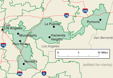 Clip of Image:Ca38 108.gif California Congressional District 38, from the U.S. National Atlas, Congressional District section Image size is 390x270 Clip by User:Leonard G.